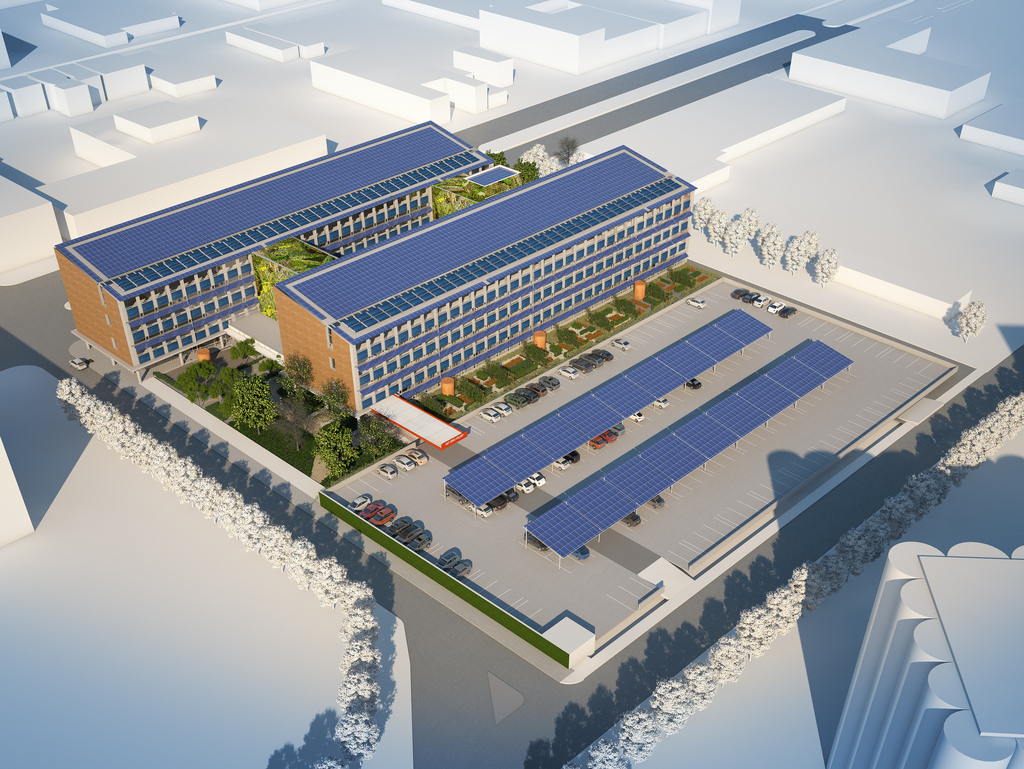 170,735-sq.-ft. net zero emissions office building prototype in St. Louis, Mo., designed by HOK and The Weidt Group in 2010